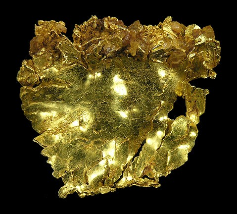 Gold Locality: Round Mountain Mine, Round Mountain District, Nye County, Nevada, USA (Locality at ) Size: 2.0 x 1.8 x 0.7 cm. This modern-day Gold locality has produced a plethora of amazing Gold specimens featuring a wide range of crystal habits, including some of the most impressive Spinel-Law twinned Gold crystals I have seen. This thumbnail was discovered in 2006 and is a very good representative Gold from the locality. The two main characteristics of the specimen are the wide flattened "sheet"-like part of the piece which comprises the majority of the specimen. Along the edge of the "sheet" are some beautiful, sharp, cuboctahedral and elongated octahedral crystals.